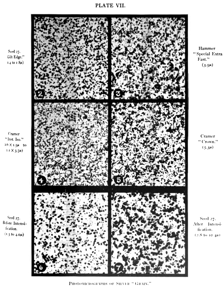 Silver 'Grain' in Photography